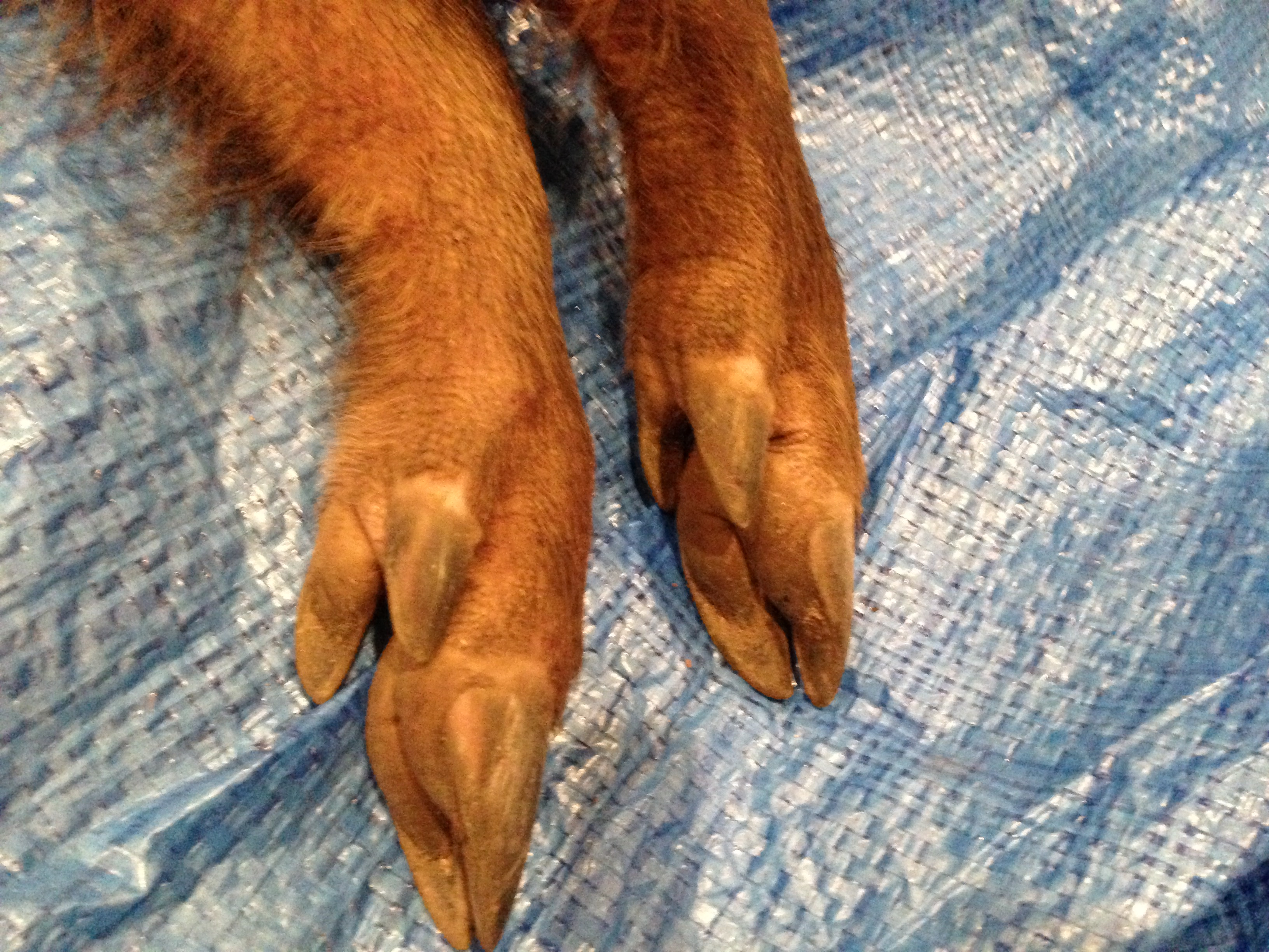 Boars leg